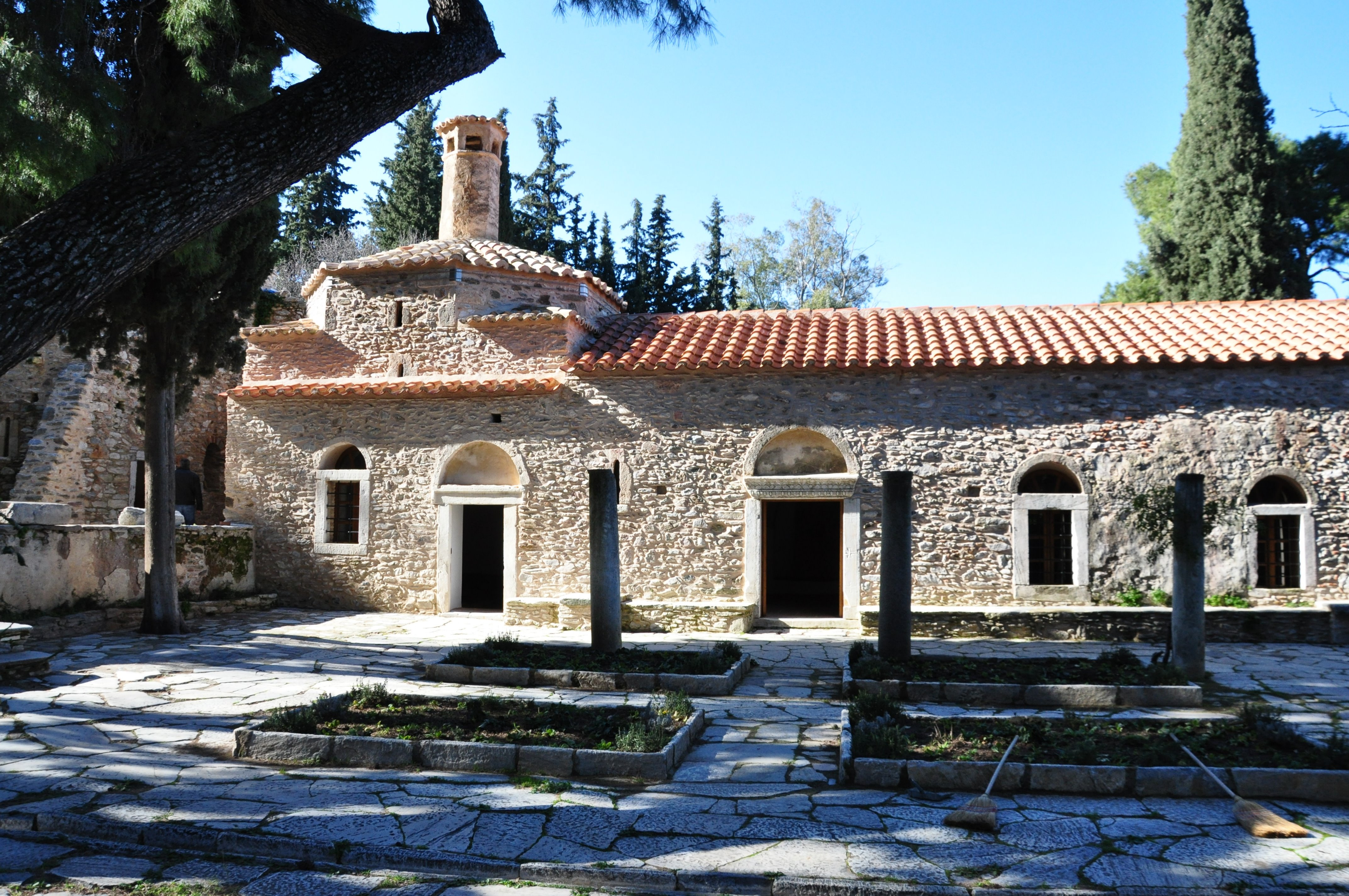 Kesariani, Athens, Greece